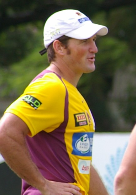 Quick snap of the Brisbane Broncos rugby league team training on 18 April 2006. Shane Perry